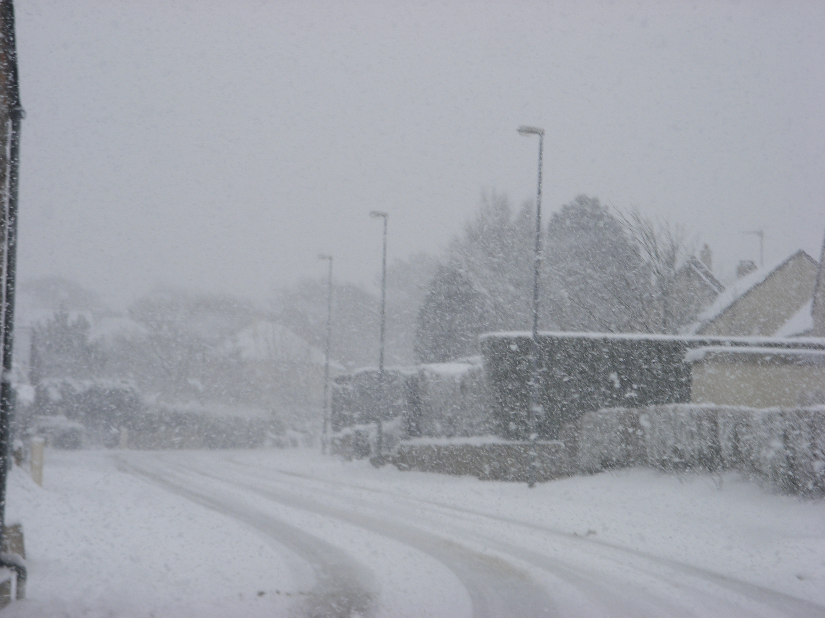 Vasteville under the snow at 2nd February 2009